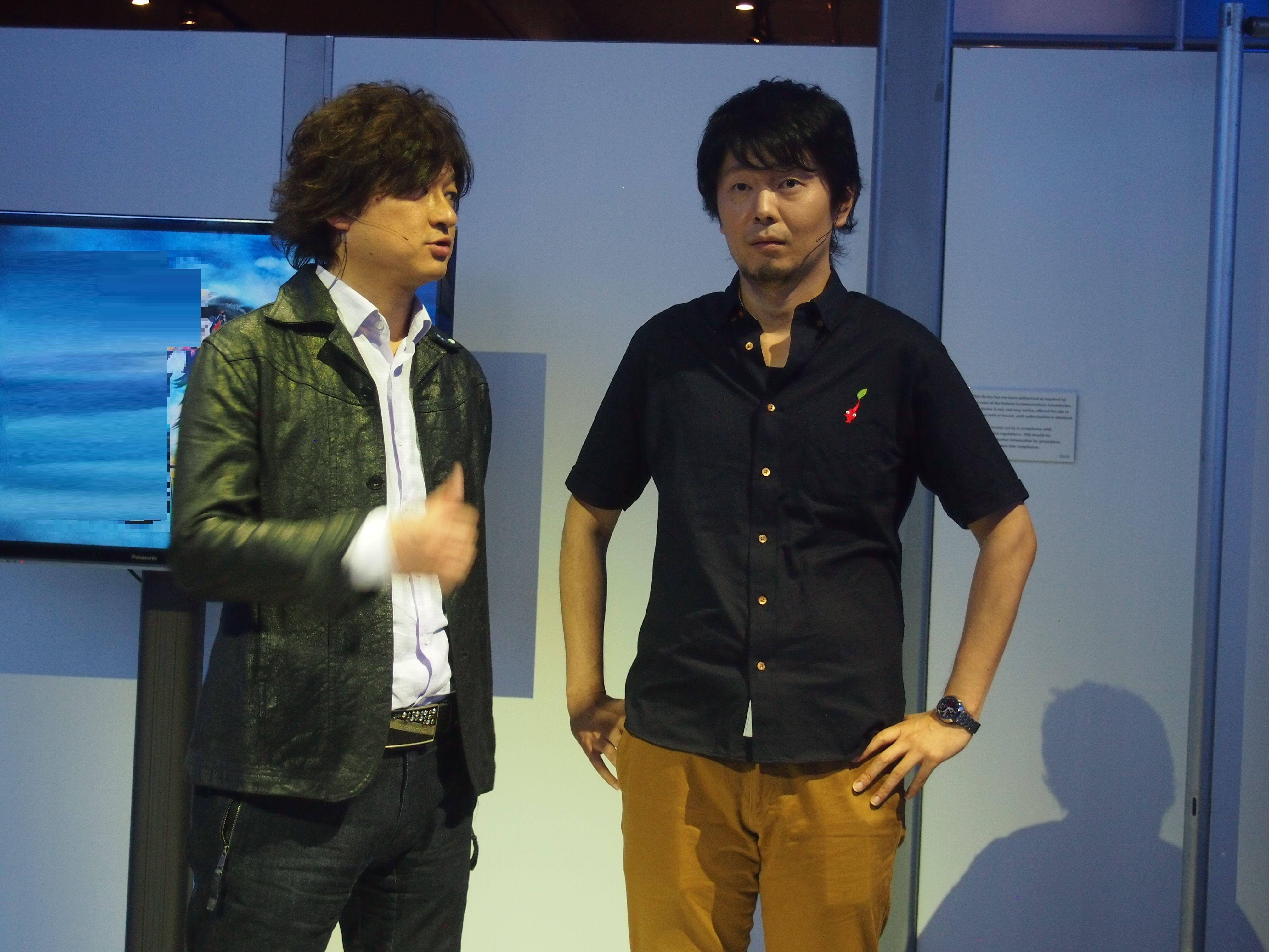 Atsushi Inaba (producer at Platinum Games, left) and Yusuke Hashimoto (director of Bayonetta 2, right) at E3 2013.